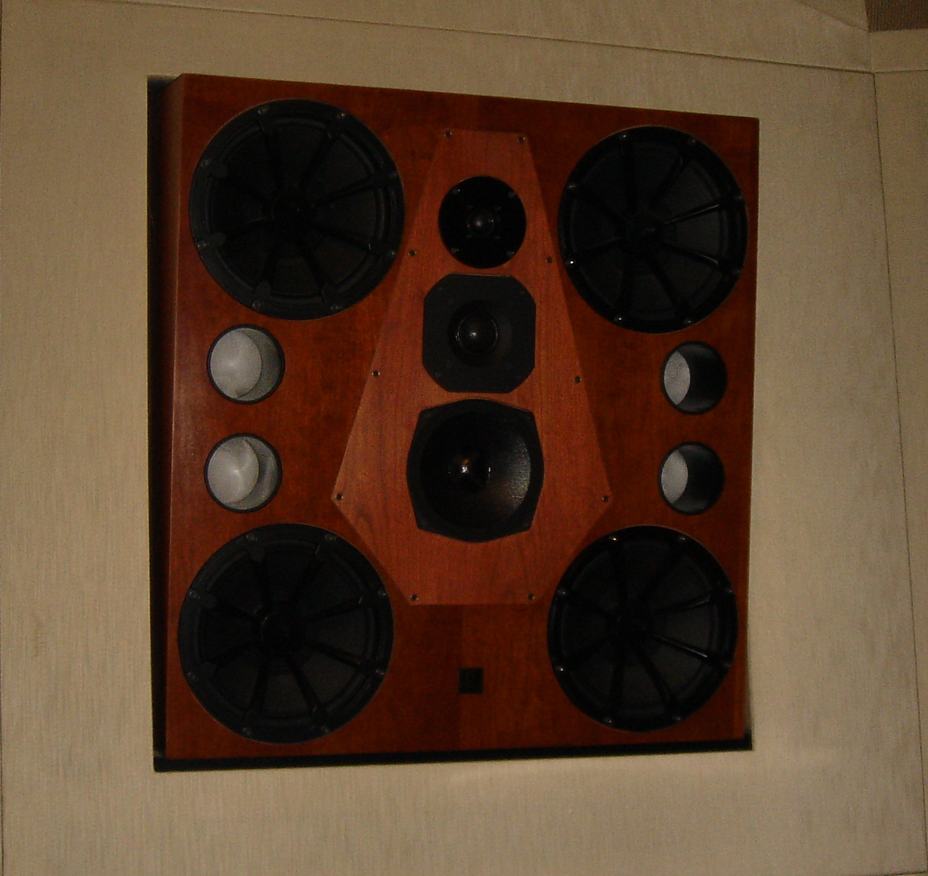 Augspurger Monitors Quested HM412 main monitor, PatchWerk Recording Studios, 2007 “Studio 9000 Monitors Quested Mains HM412 Quested Subs QSB118 w/ EV 1000 watt concert series speakers Genelec 1031A nearfield monitors Yamaha NS10M nearfield monitors Sony MDR-V900 headphones Sennheiser headphones” —Studio 9000, PatchWerk Recording Studios References Studio 9000. PatchWerk Recording Studios. Custom Active Systems 7–8. Quested Limited. "QUESTED HM412 Main System 4-Way Active Reference Monitor ...”, “QUESTED QSB118 Low-Frequency Active Reference Monitor ..."